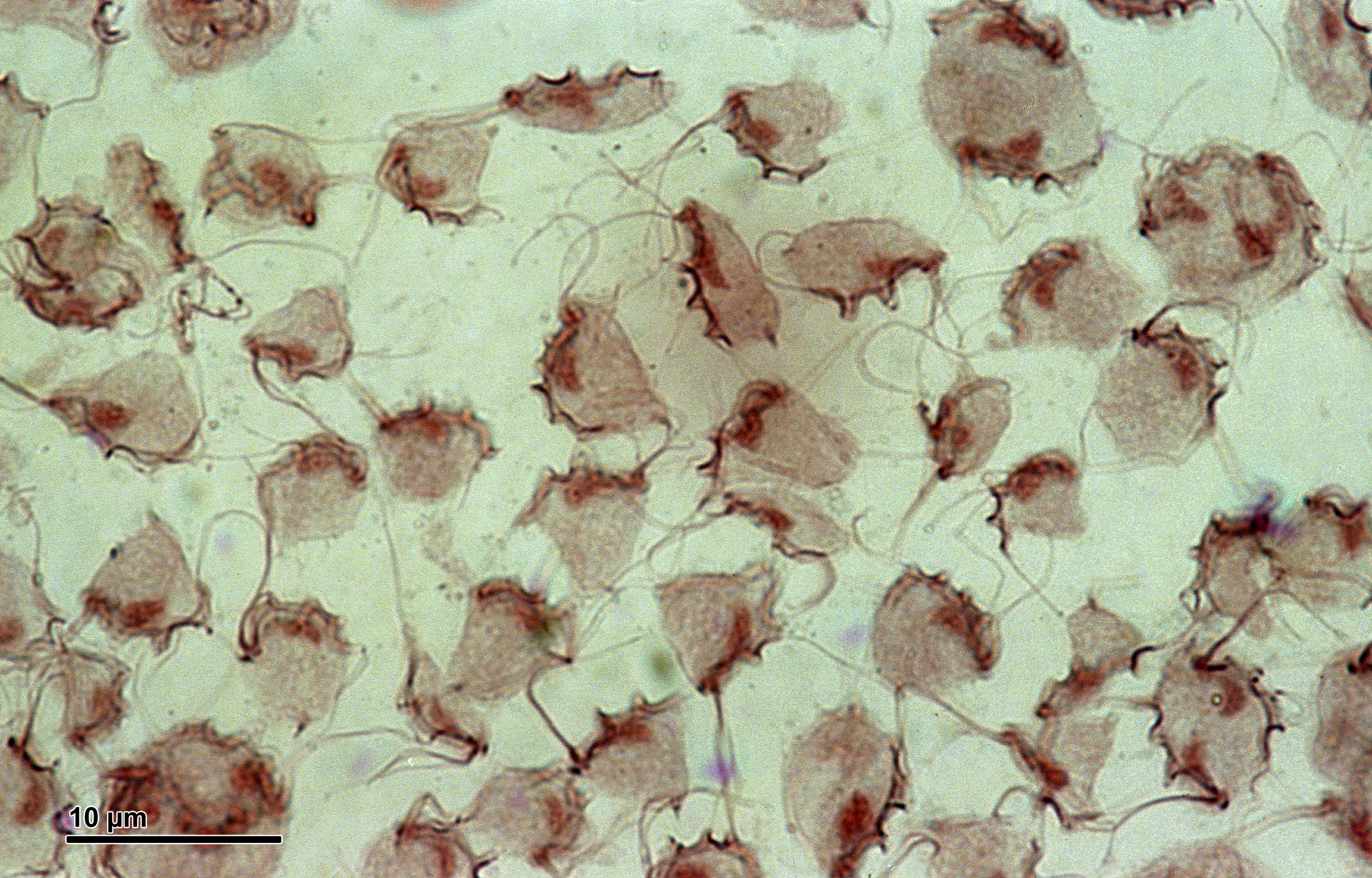 Tritrichomonas foetus (Tritrichomonas foetus): Cultured. Optical microscopy technique: Bright field. Magnification: 4000x (for picture width 26 cm ~ A4 format).